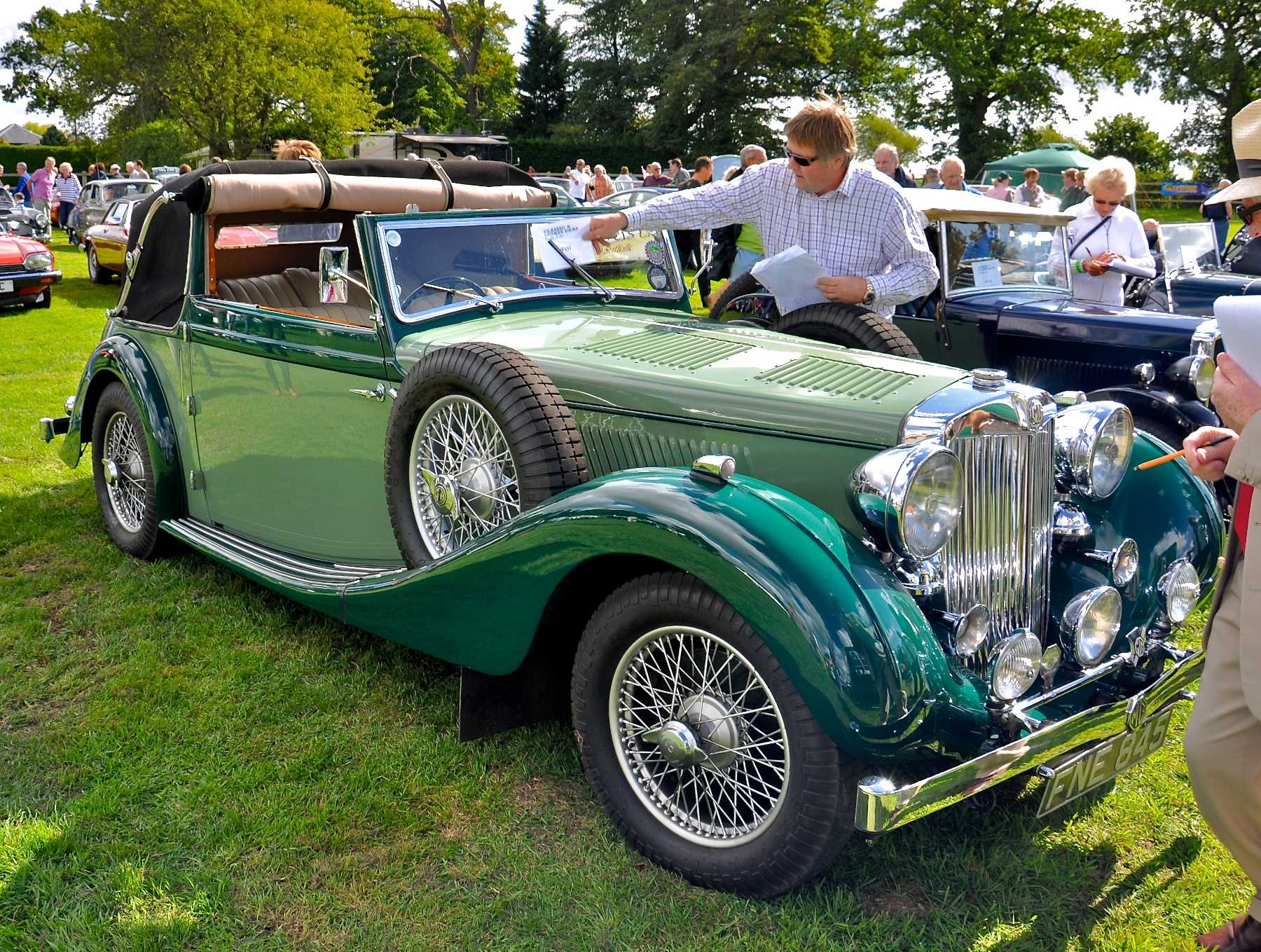 MG, WA Tickford, Cabriolet, 1939 (DVLA) First registered 21 April 1939, 2687 cc